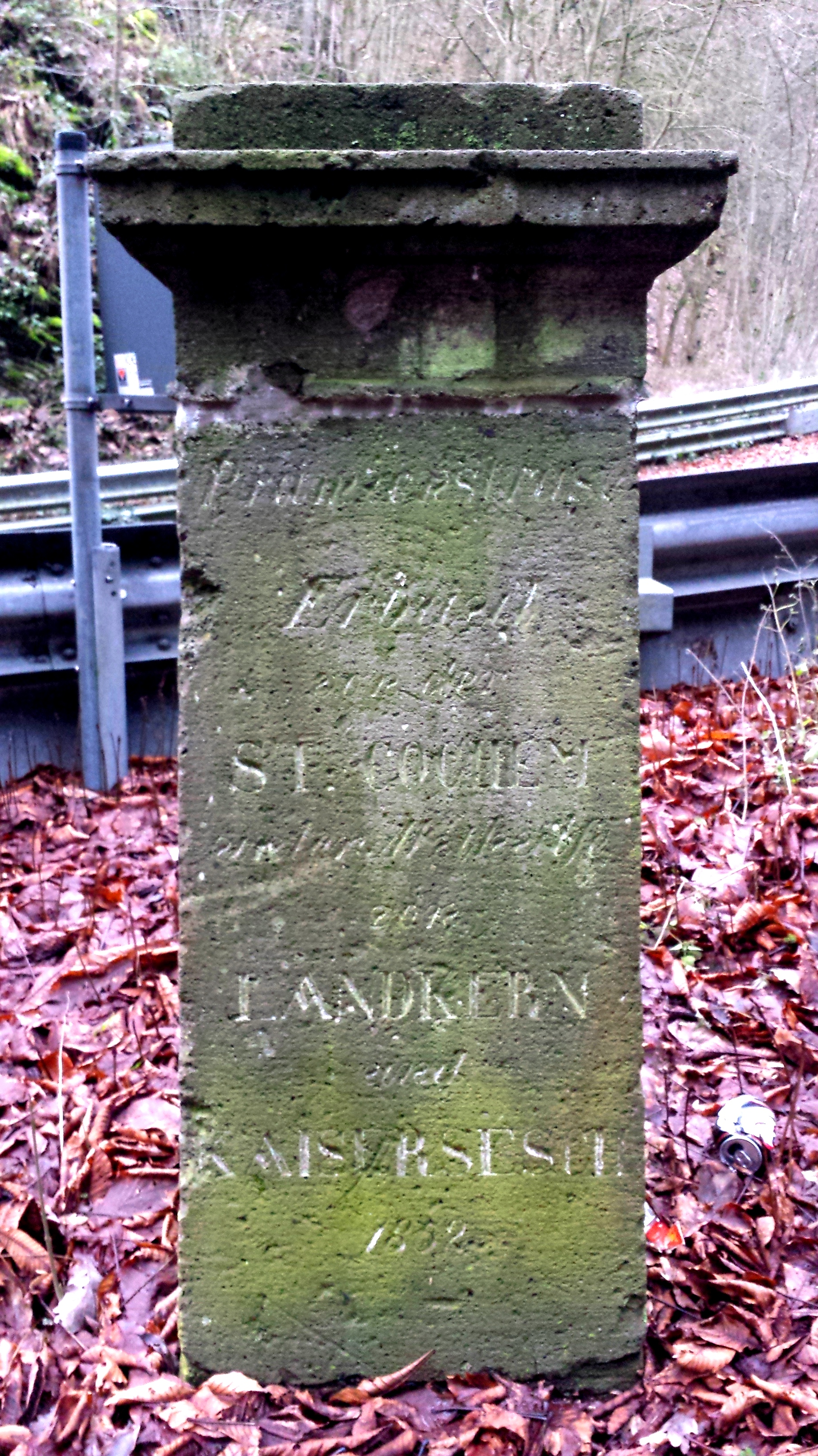 Milestone Cochem-Landkern-Kaisersesch in the Fahrendeier Valley